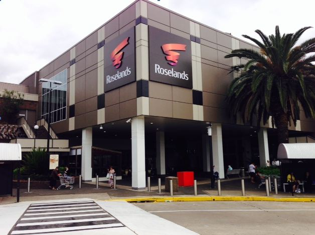 This photo demonstrates the principal front of the Roselands Shopping Centre building, that faces onto the street.